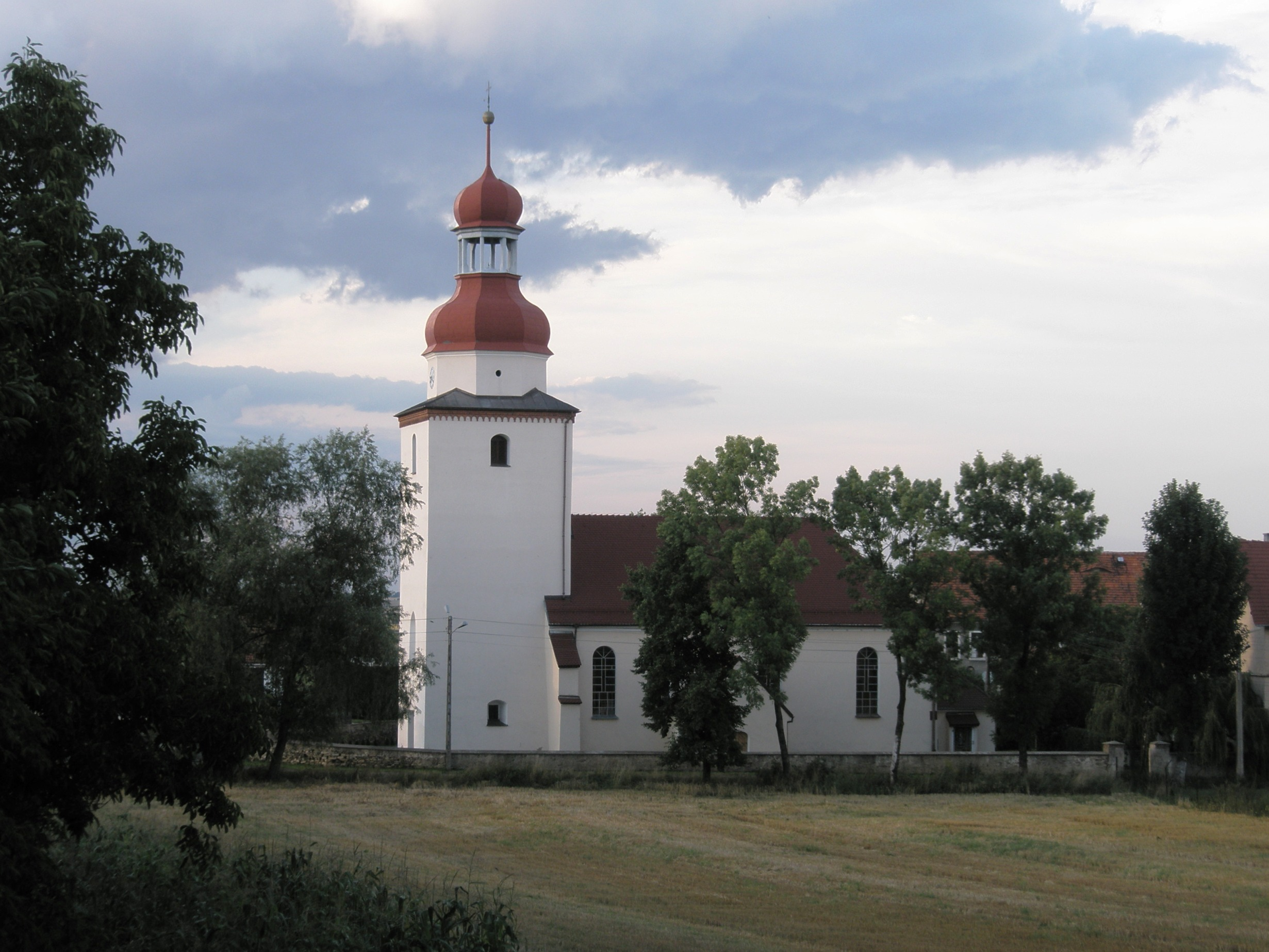 Księginice Wielkie, St. John the Baptist church